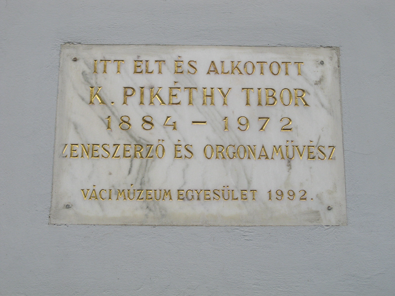 Tibor K. Pikéthy commemorative plaque in Vác. Migazzi Kristóf Square No 2.